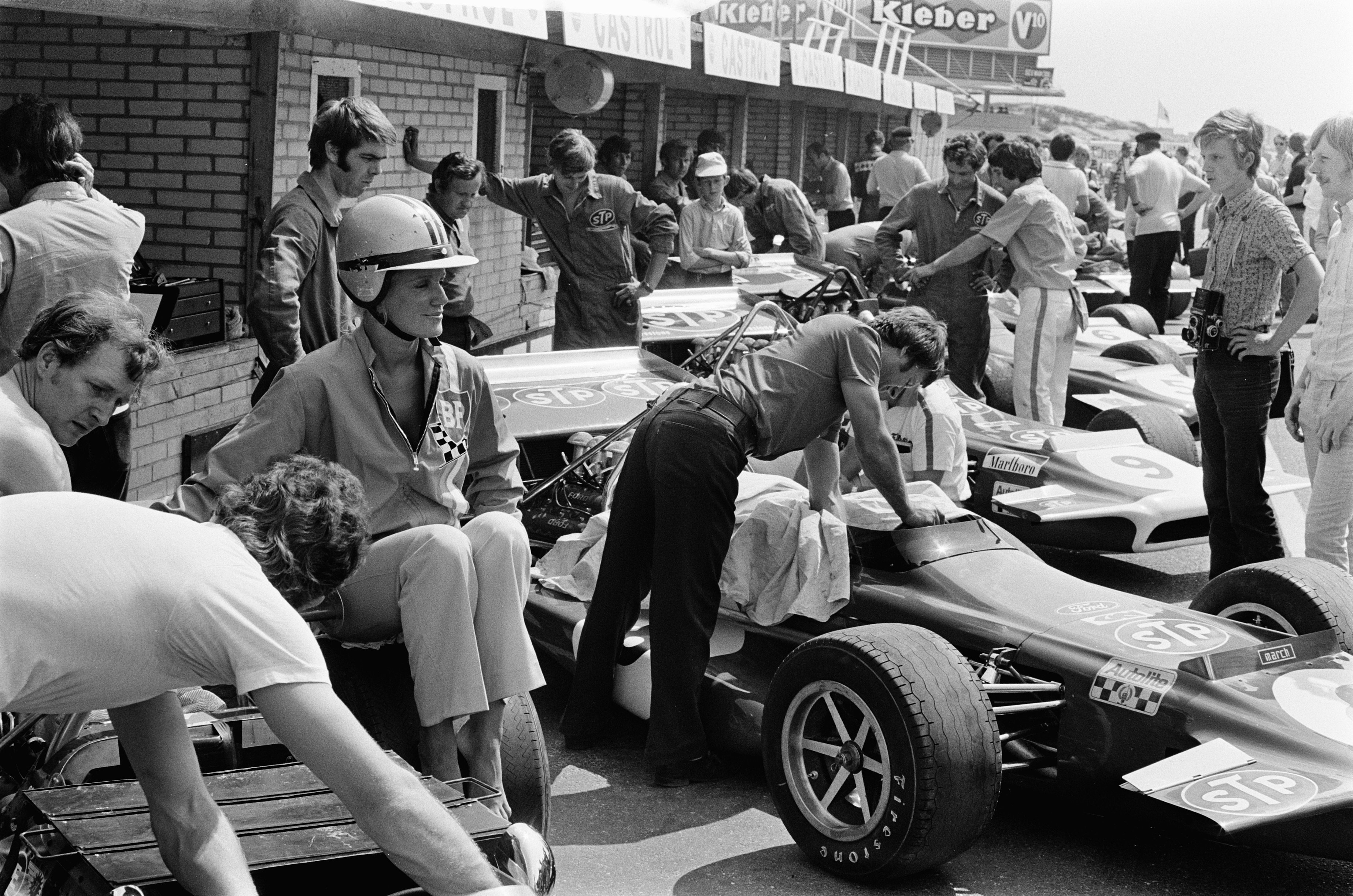 A row of four March 701 cars line up in the pits at the 1970 Dutch Grand Prix. Closest to the camera is Chris Amon's STP-sponsored works car (#8), with Jo Siffert's similar car (#9) behind distinguished by its white-lipped radiator opening. The two cars belonging to the Tyrrell Racing team (note Elf sponsorship) are behind this: Jackie Stewart's car is #5; François Cevert's car is #6. March co-founder Alan Rees is the shorter of the two men inspecting the left rear wheel of Amon's car.